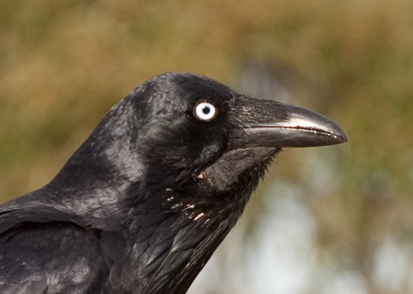 An adult Australian Raven at Glebe Point, Sydney, New South Wales, Australia